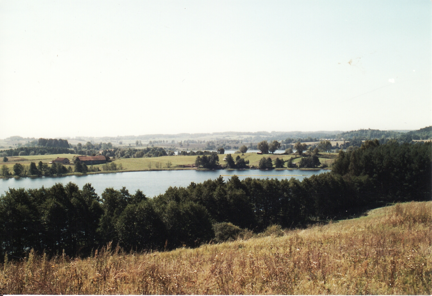 Pasterzewo